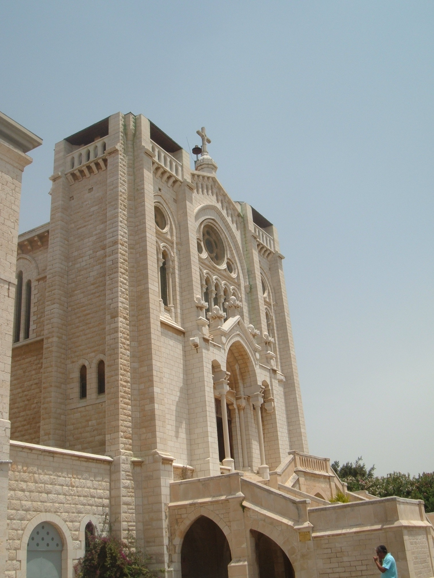 front of Salesian church nazareth חזית הכנסייה הסלזיאנית בנצרת